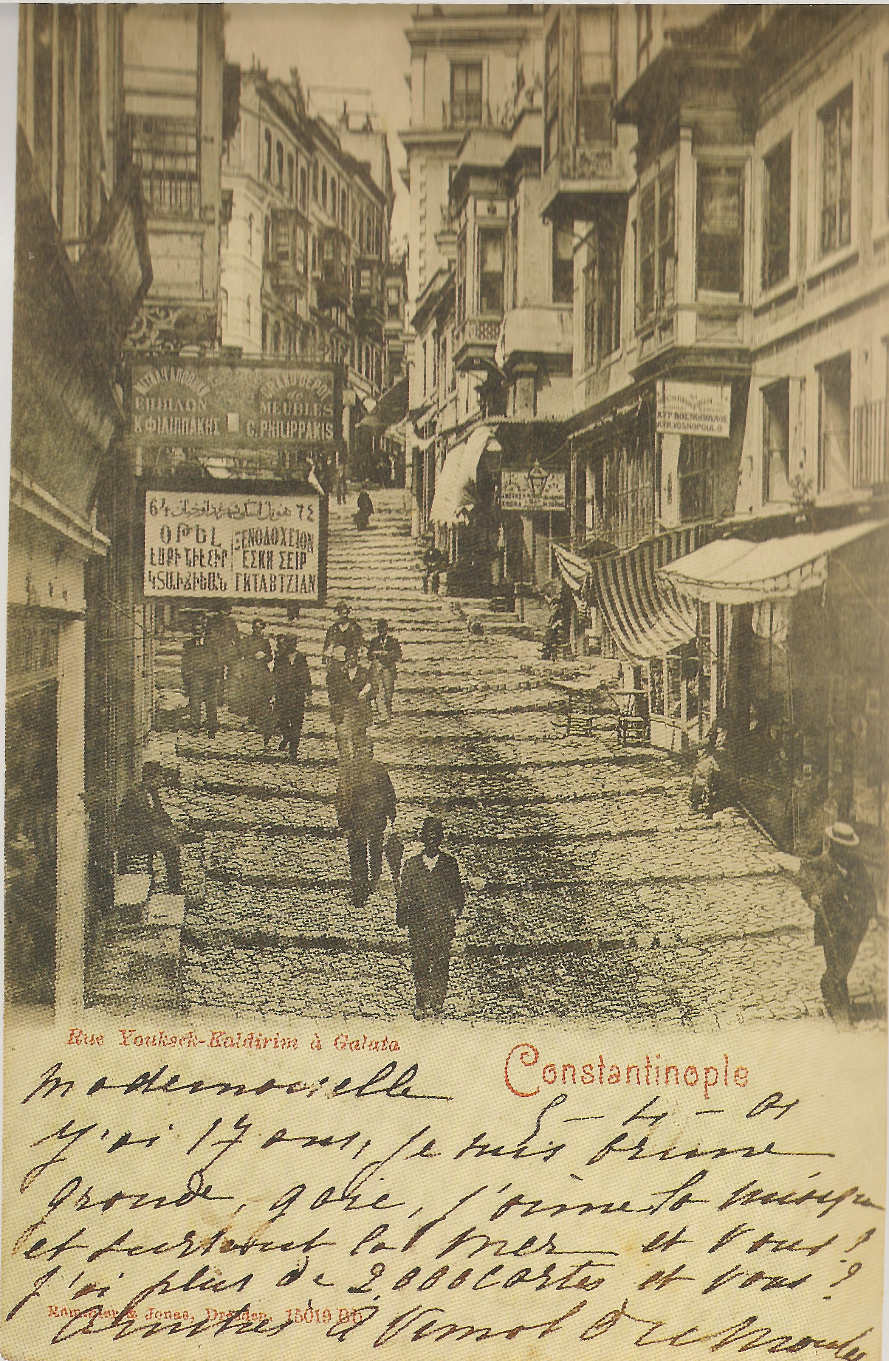 Postcard showing of Youksek-Kalidrim Street in Galata, Constantinople (Istanbul)